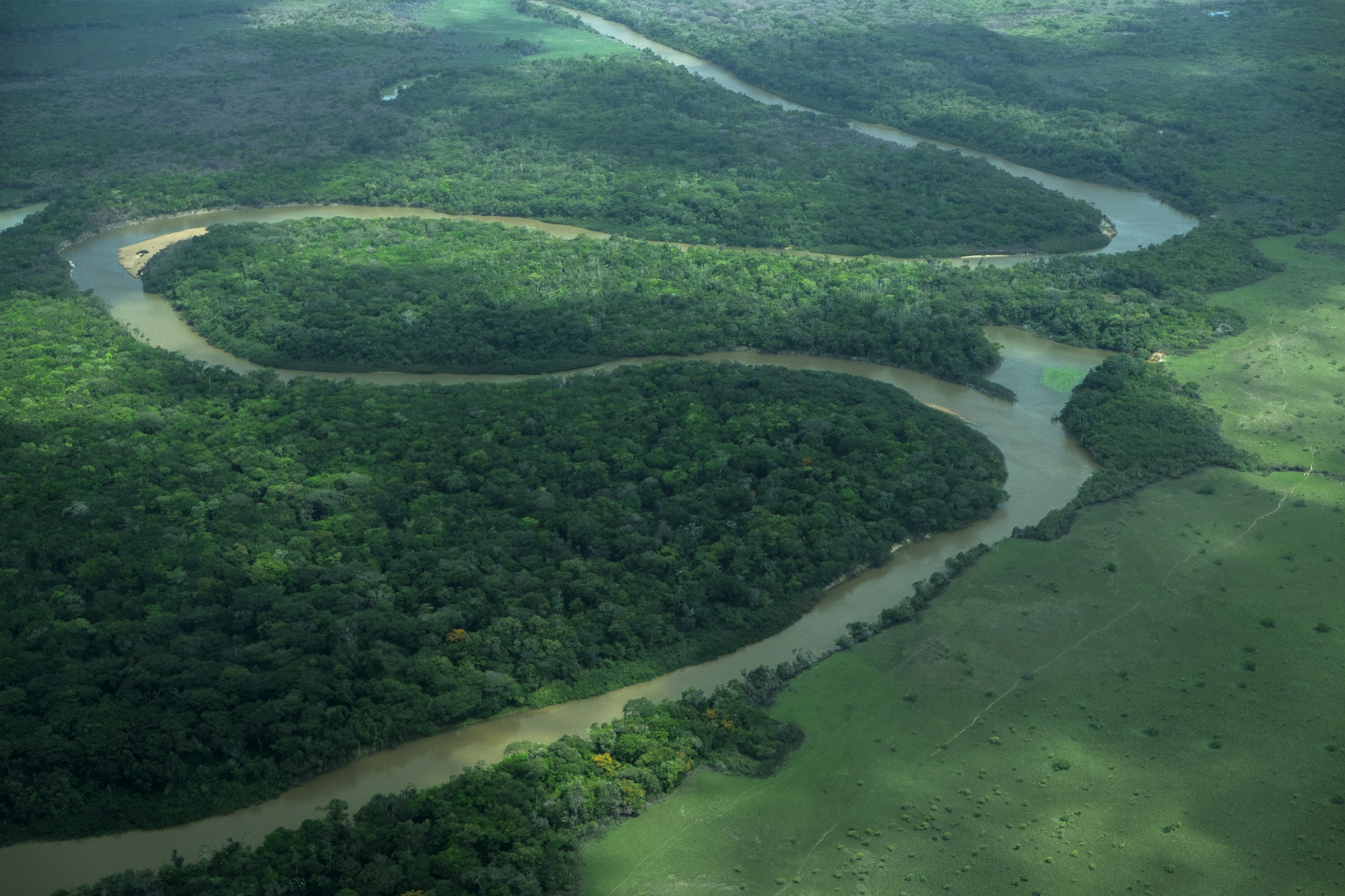 Upper Takutu Region, on border with Guyana